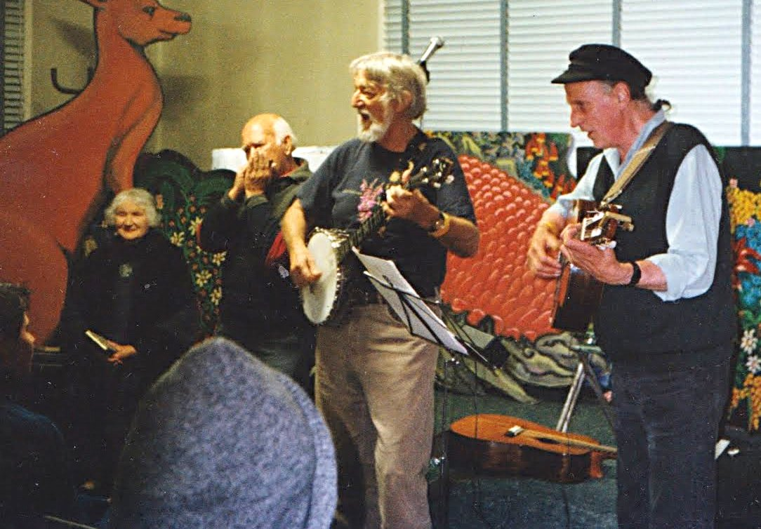 The Rambleers formed in 1957 after the breakup of The Bushwhackers (1952-1957)